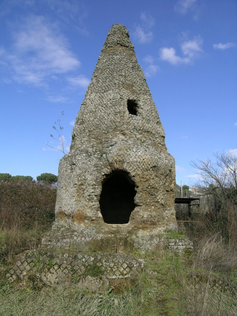 Picture of the Fourth of Fescina in Monteleone Castle, Campania, Italy.